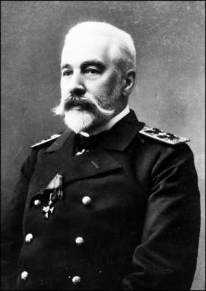 Grigorovich, Ivan Konstantinovich, Russian admiral, Naval minister (1911-1917)